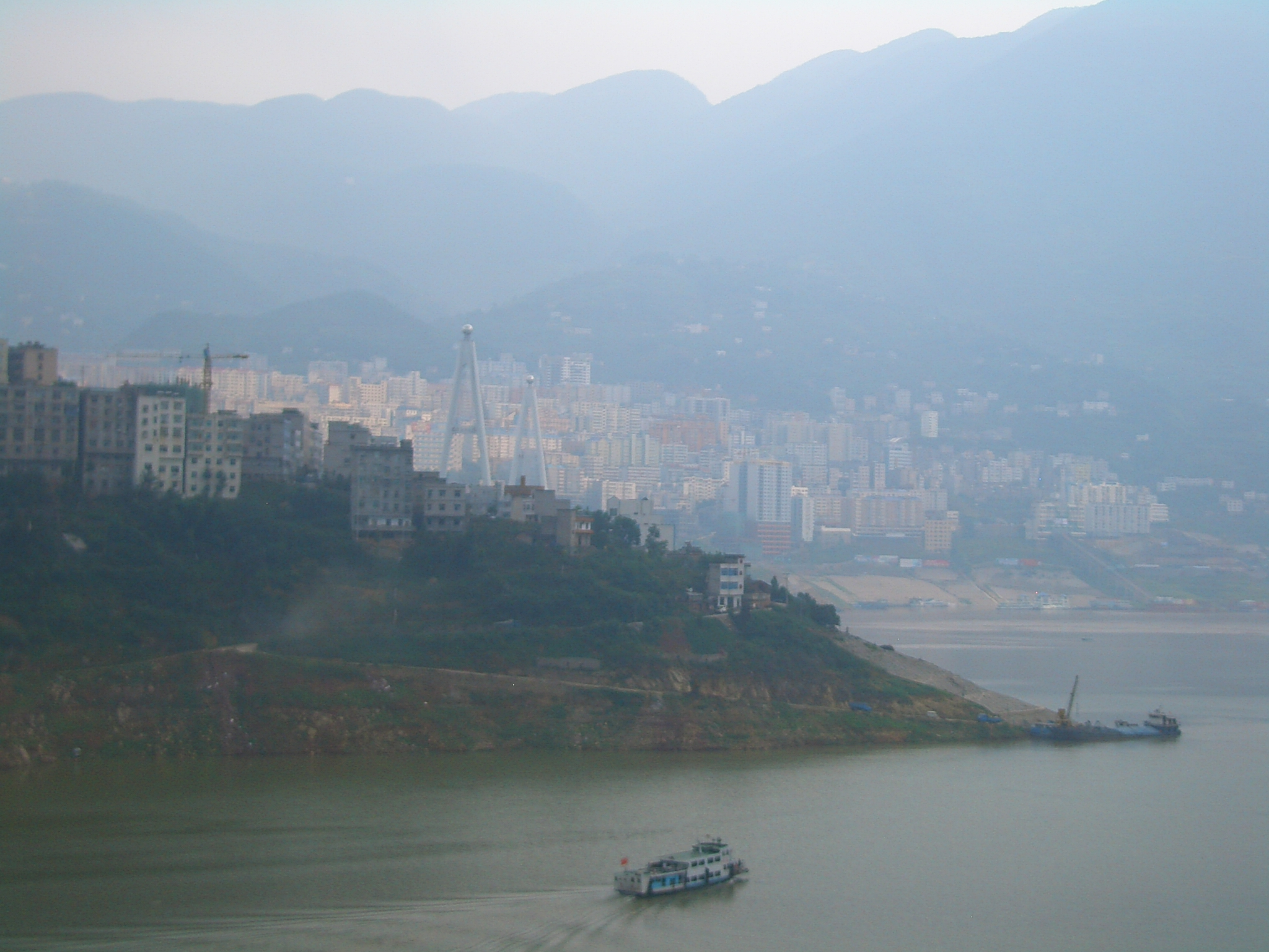 The fall of the Shennong Xi (Shennong Creek, a left tributary of the Yangtze) into the Yangtze. The Yangtze, and the downtoon Badong (across the river) are in the background